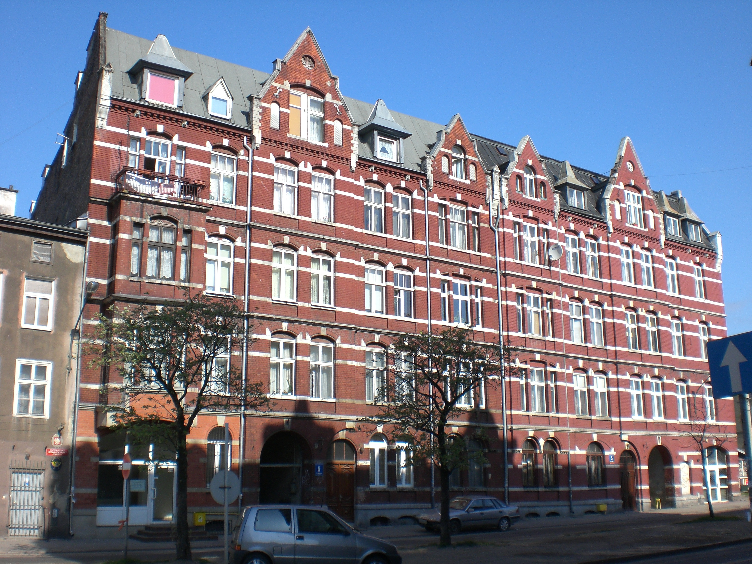 A house on the Łąkowa Street in Dolne Miasto of Gdańsk